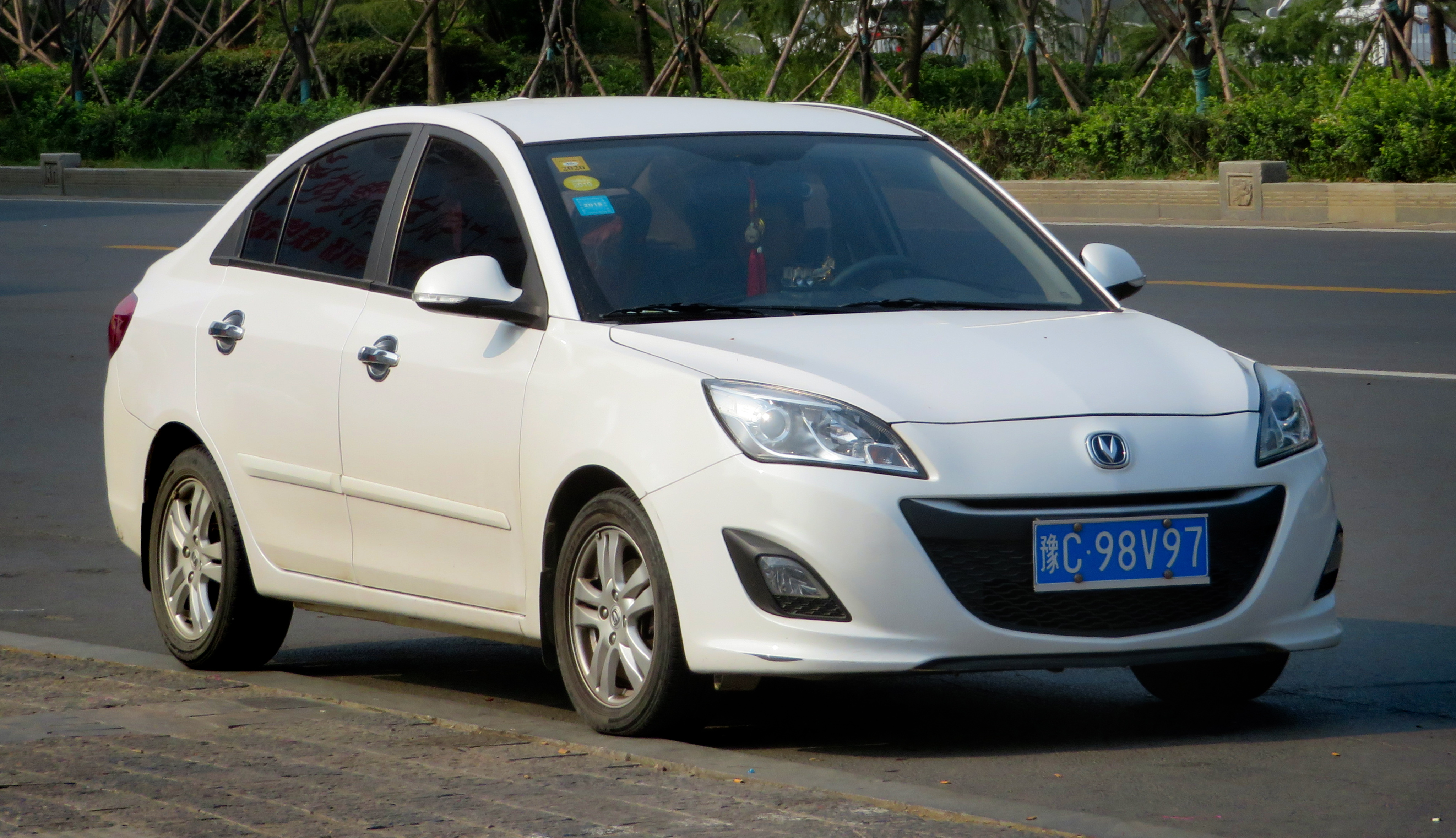 A 2017 Chang'an Alsvin V5 photographed at Guanlinzhen, in Luoyang, Henan province, China